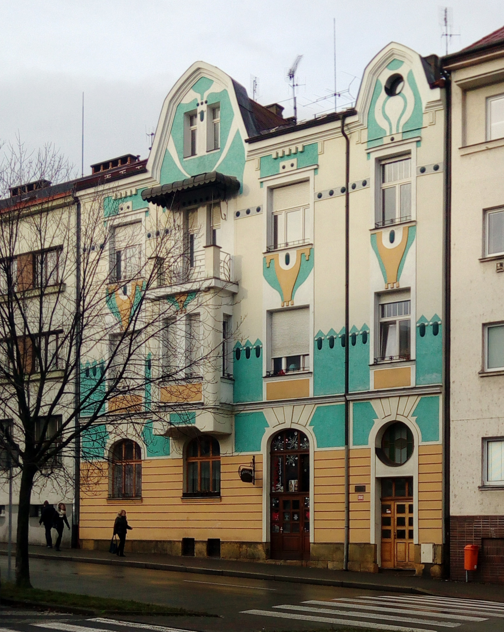 Native house of Adina Mandlová in Václava Klimenta avenue, Mladá Boleslav, Czechia